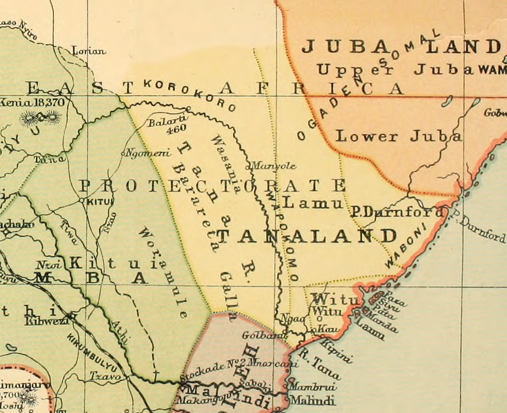 Tanaland, province of East Africa Protectorate